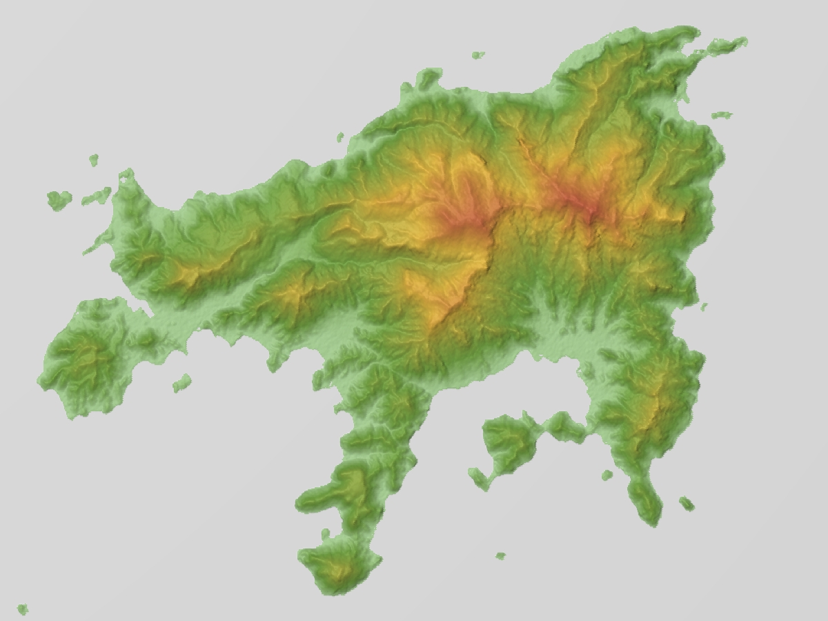 Shōdoshima in Kagawa Prefecture, Japan.